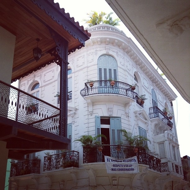 Building in the Casco Antiguo